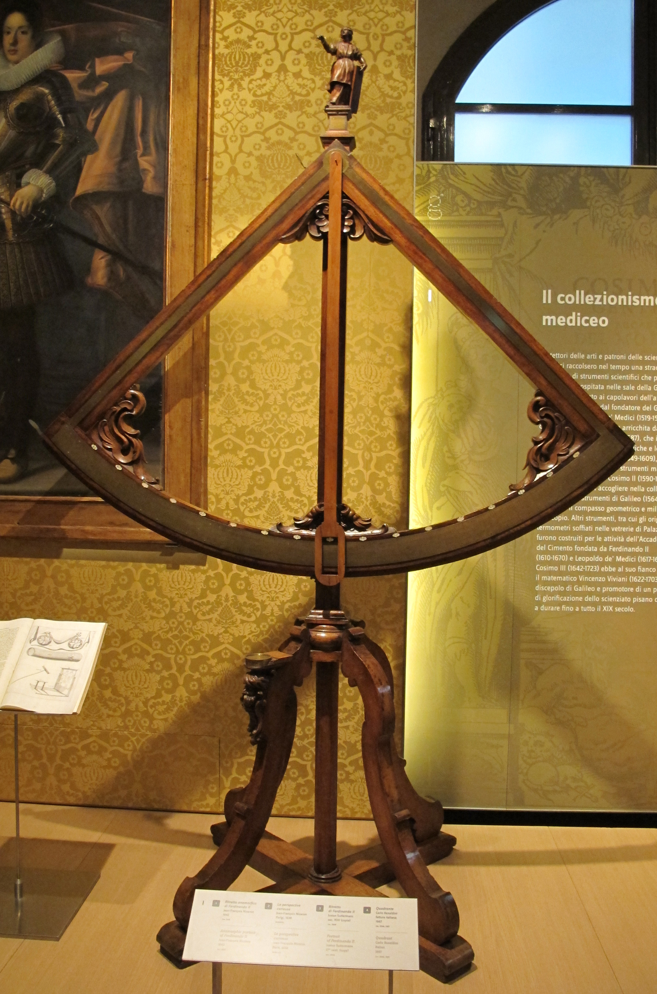 Quadrant.